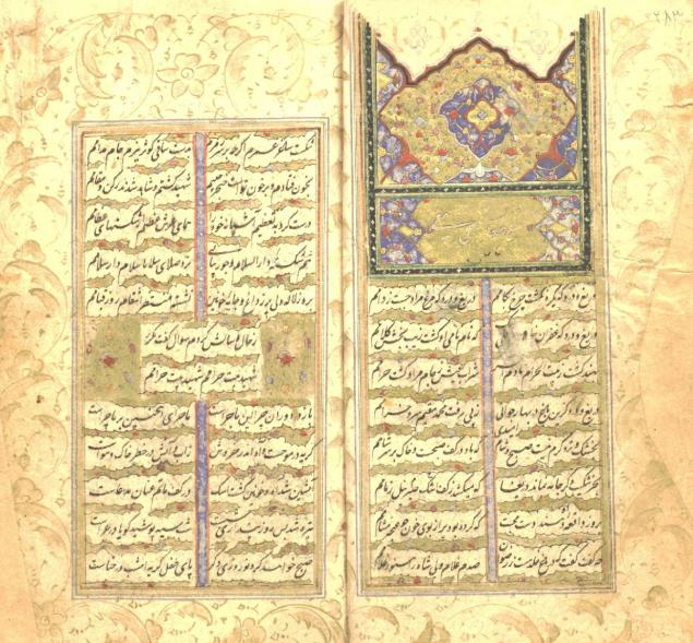 A Handwritten and handmade page of Diwan of Ali-Naqi Kamarei from 1624,more details in Persian.